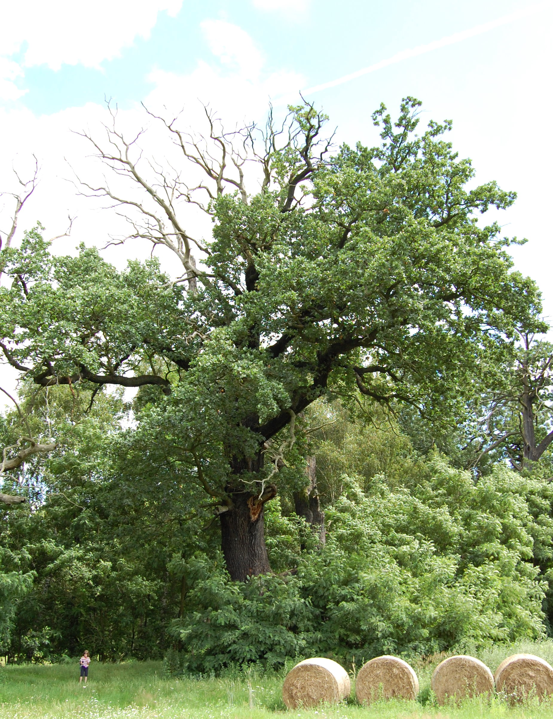 Weidmannsrast Oak (Weidmannsrast) in the Byttna near Straupitz, Landkreis Dahme-Spreewald, Brandenburg, Germany.